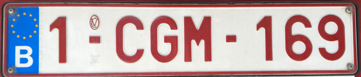 Belgian license plate